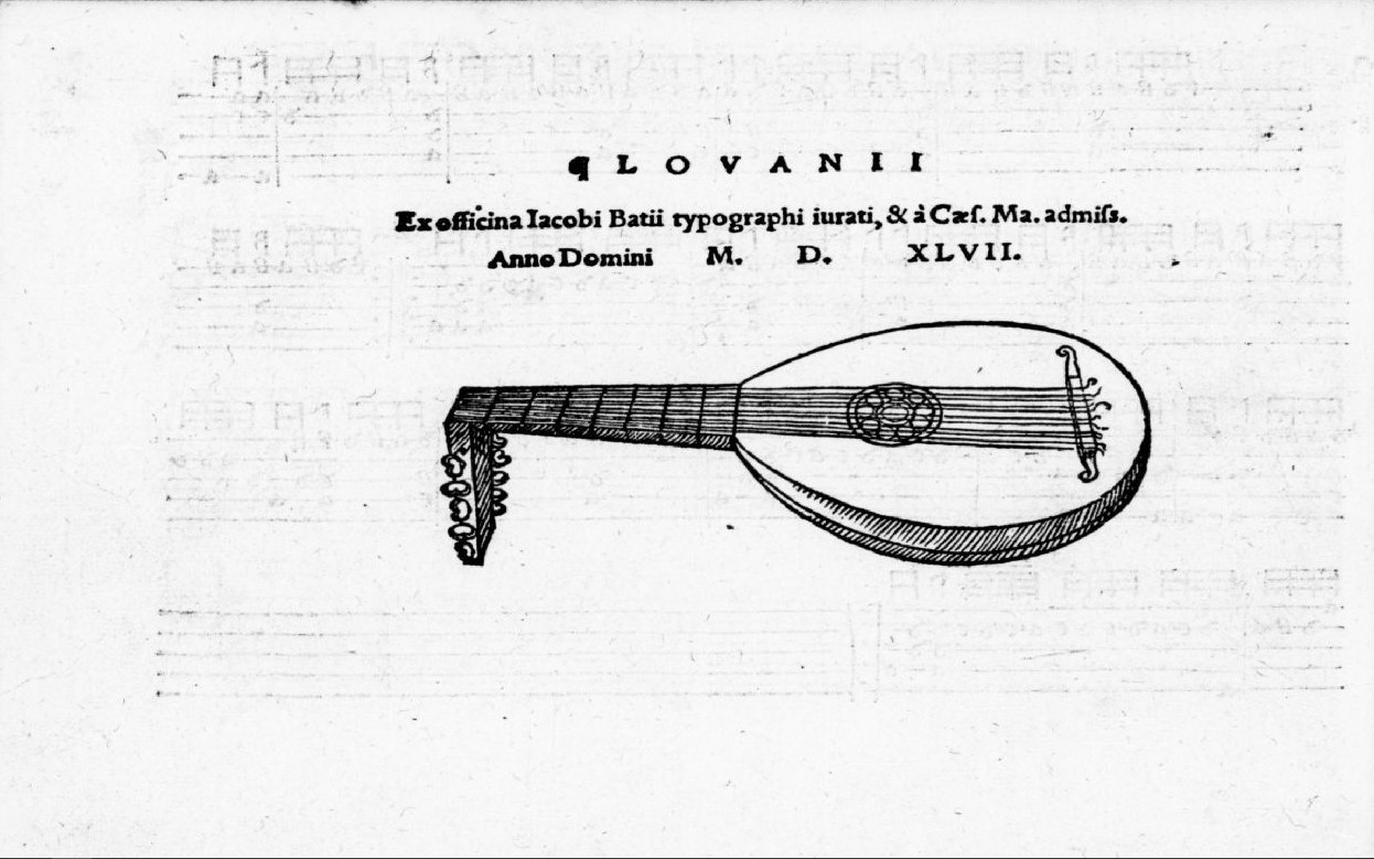 Colophon of 'Des chansons reduictz en tabulature de lut a deux, trois et quatre parties' published in Leuven in 1547 by Phalesius and printed by Jacob Baethen